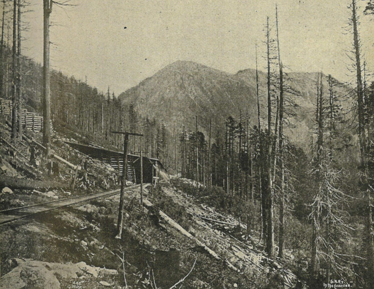 Great Northern Railway in the Cascade Mountains, Washington State (1900).